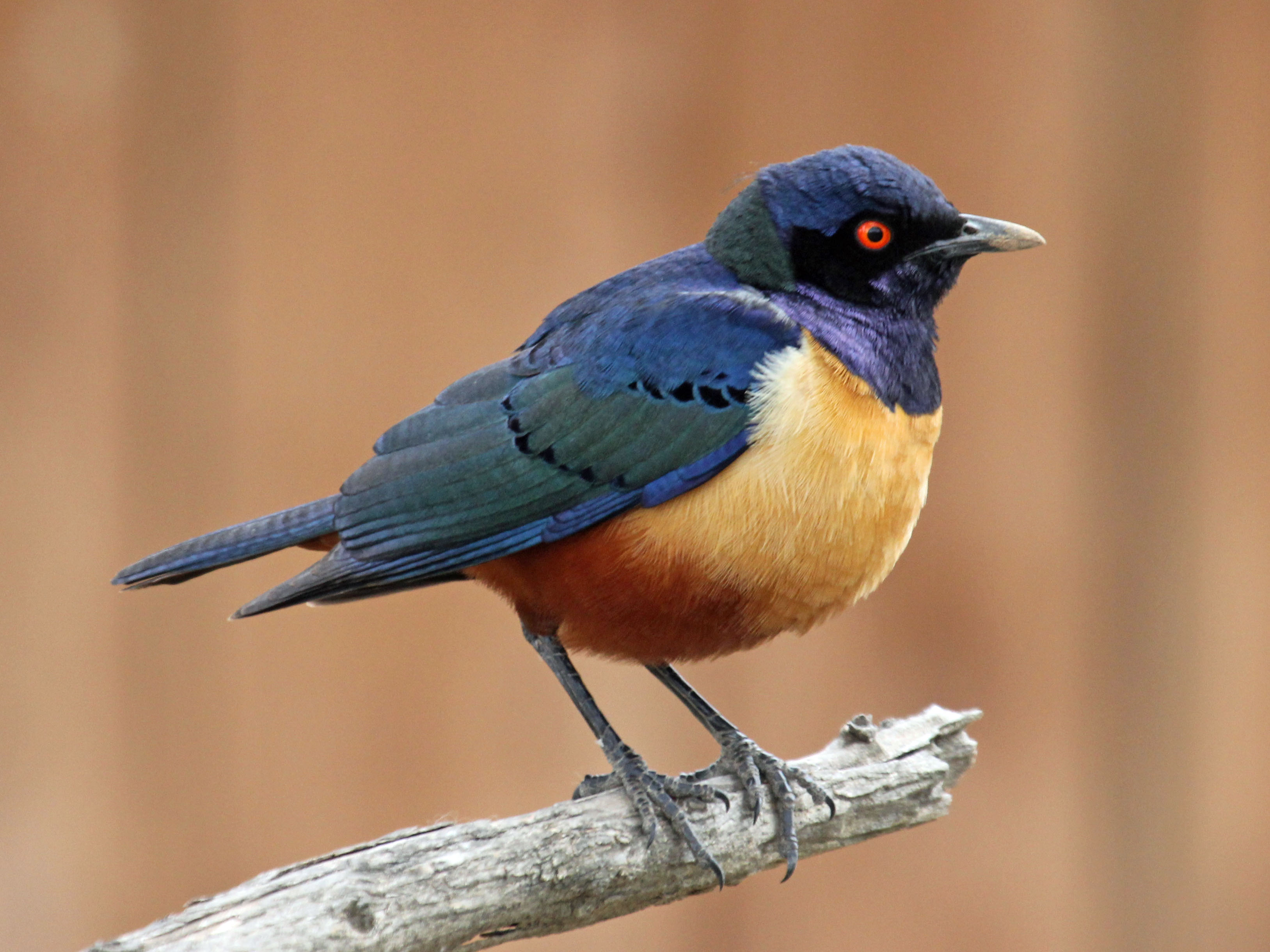 Hildebrandt's Starling (Lamprotornis hildebrandti) - slightly north of Masai Mara in Kenya.